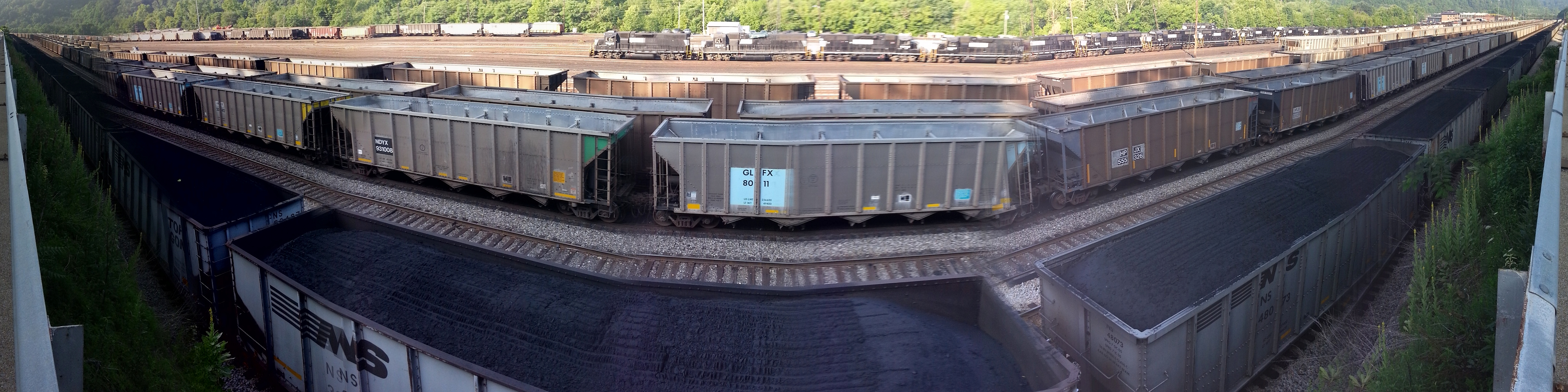 Rail yard in Williamson, West Virginia